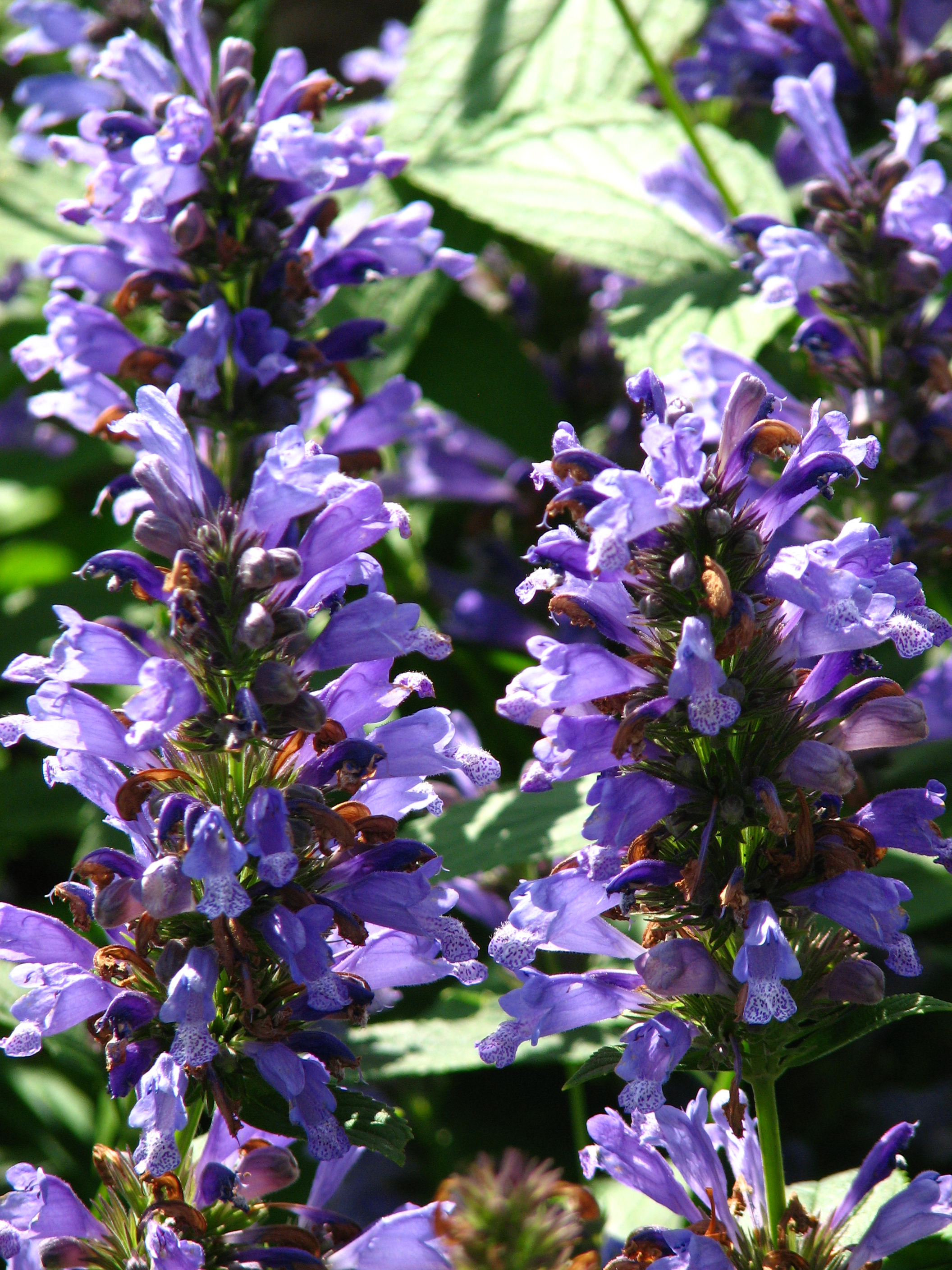 Nepeta grandiflora 'Dawn to Dusk'. From the collection of the Main Botanical Garden of Academy of Sciences in Moscow (perennials plot).